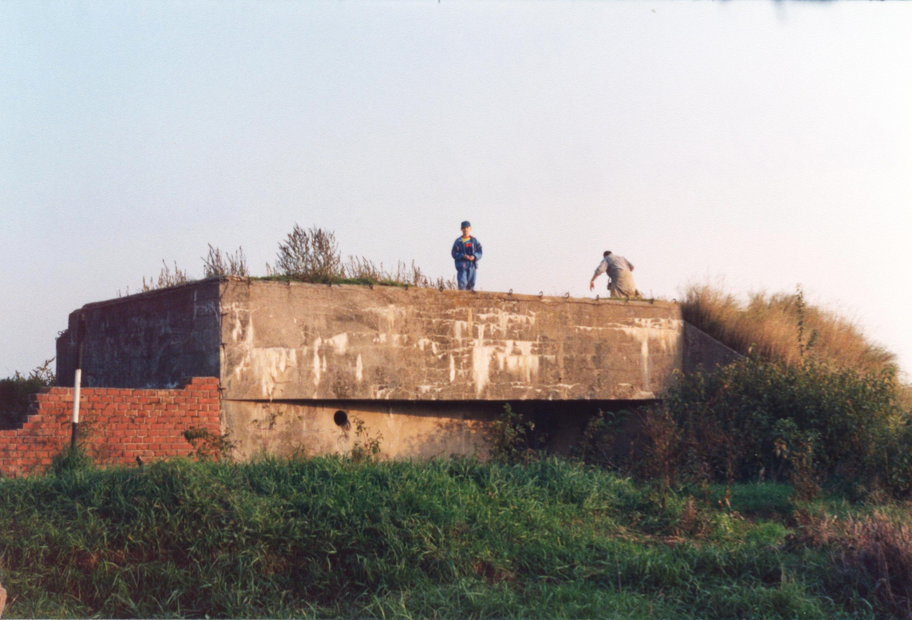 B-S 10 Tři hranice casemate, Bratislava, Slovakia